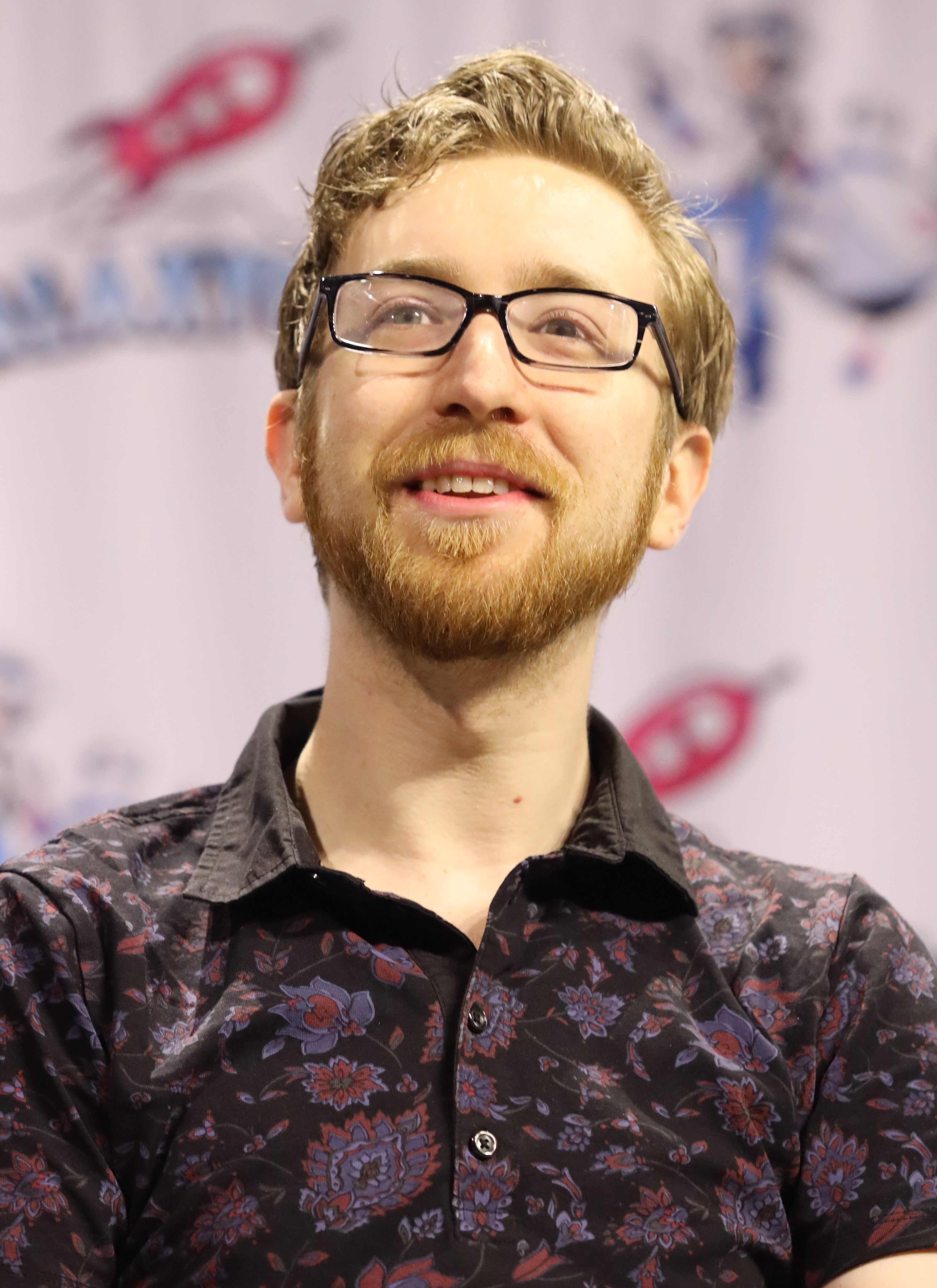 Justin Briner at GalaxyCon Richmond in 2020